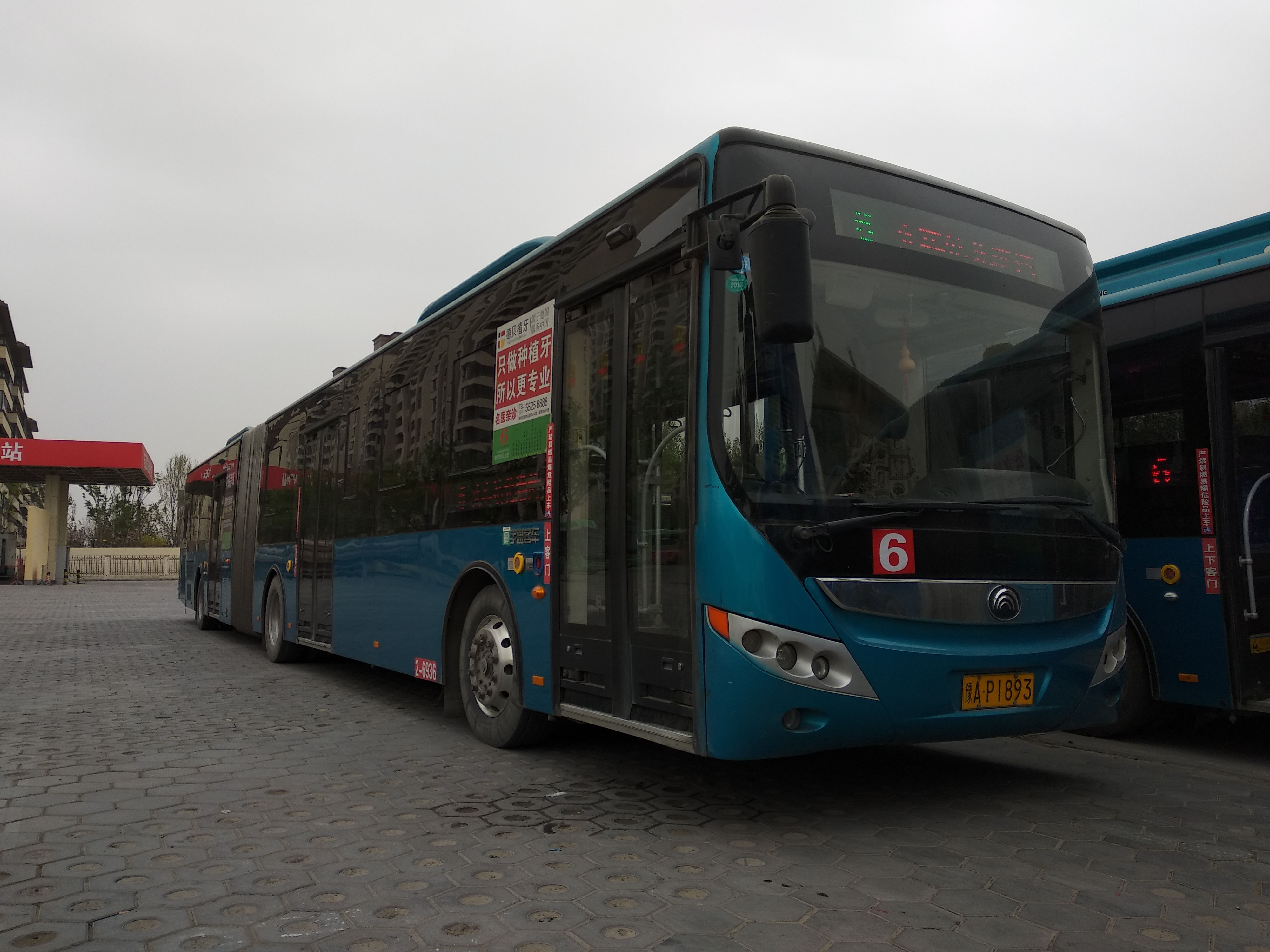 This is a Yutong ZK6180CHEVG1 bus serving on Zhengzhou Bus Route 6. Now you can see buses of this model on Routes 6, 62, 97 (in red painting) and B38.